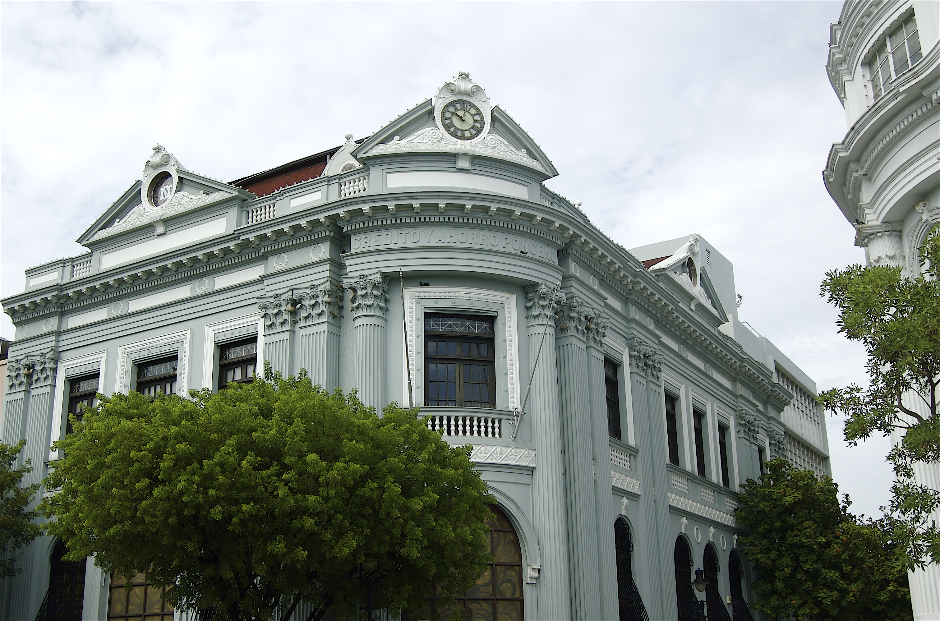 Headquarters of the old Banco Credito y Ahorro Ponceno — at Plaza Las Delicias, Ponce, Puerto Rico. In the Ponce Historic Zone, and on the National Register of Historic Places in Ponce, Puerto Rico.